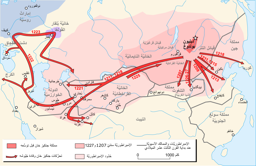 Genghis Khan empire, XIIIth century